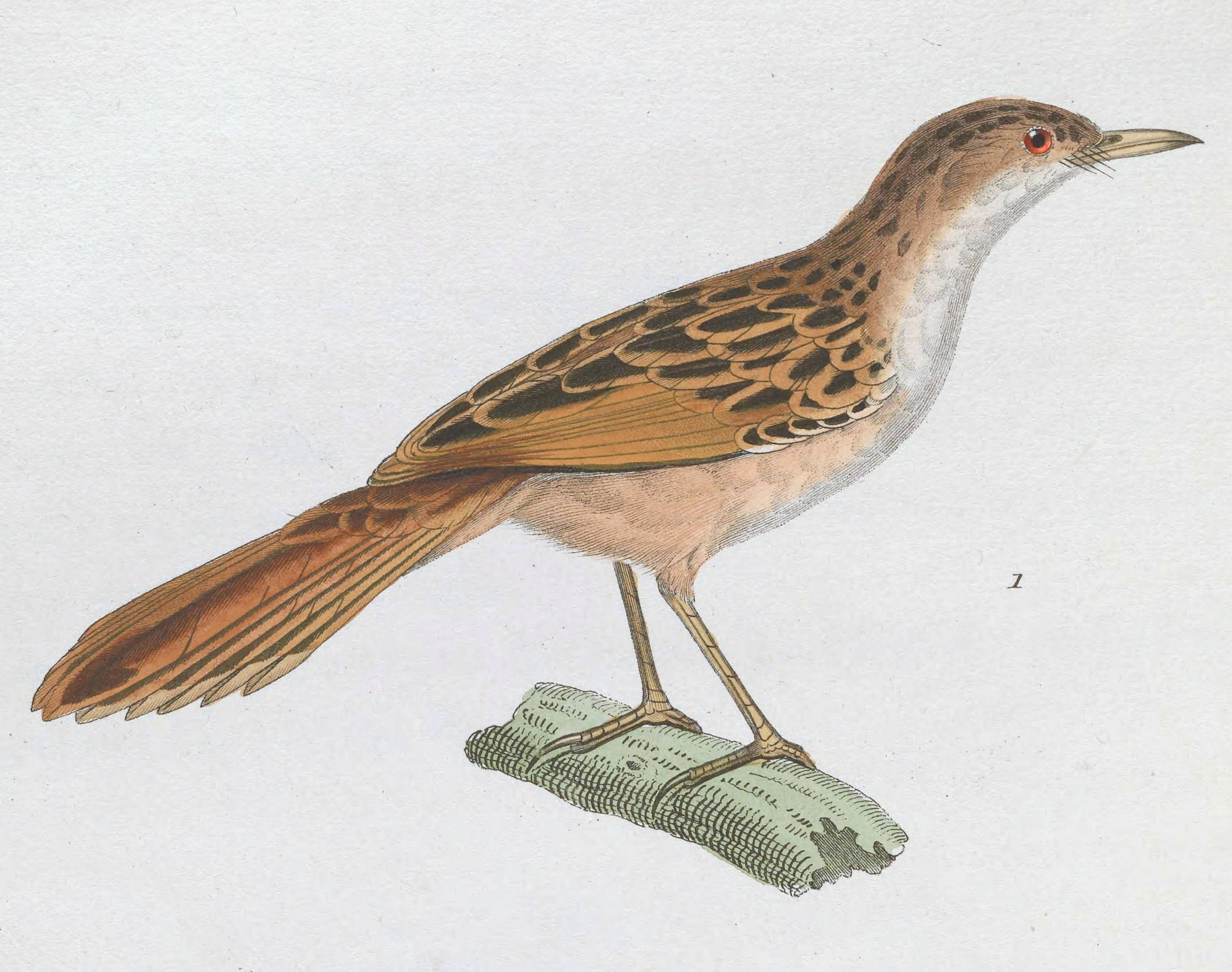 « Malurus galactotes » = Cisticola galactotes (Rufous-winged Cisticola)